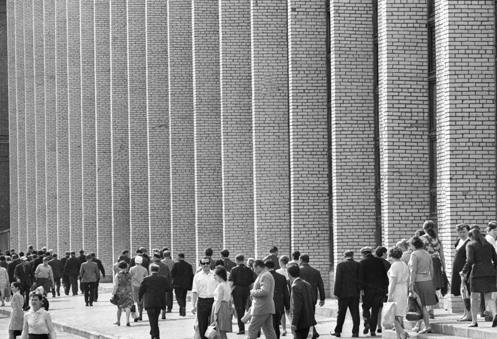 “After working day”. Workers at the Elektrosila plant after a working day.